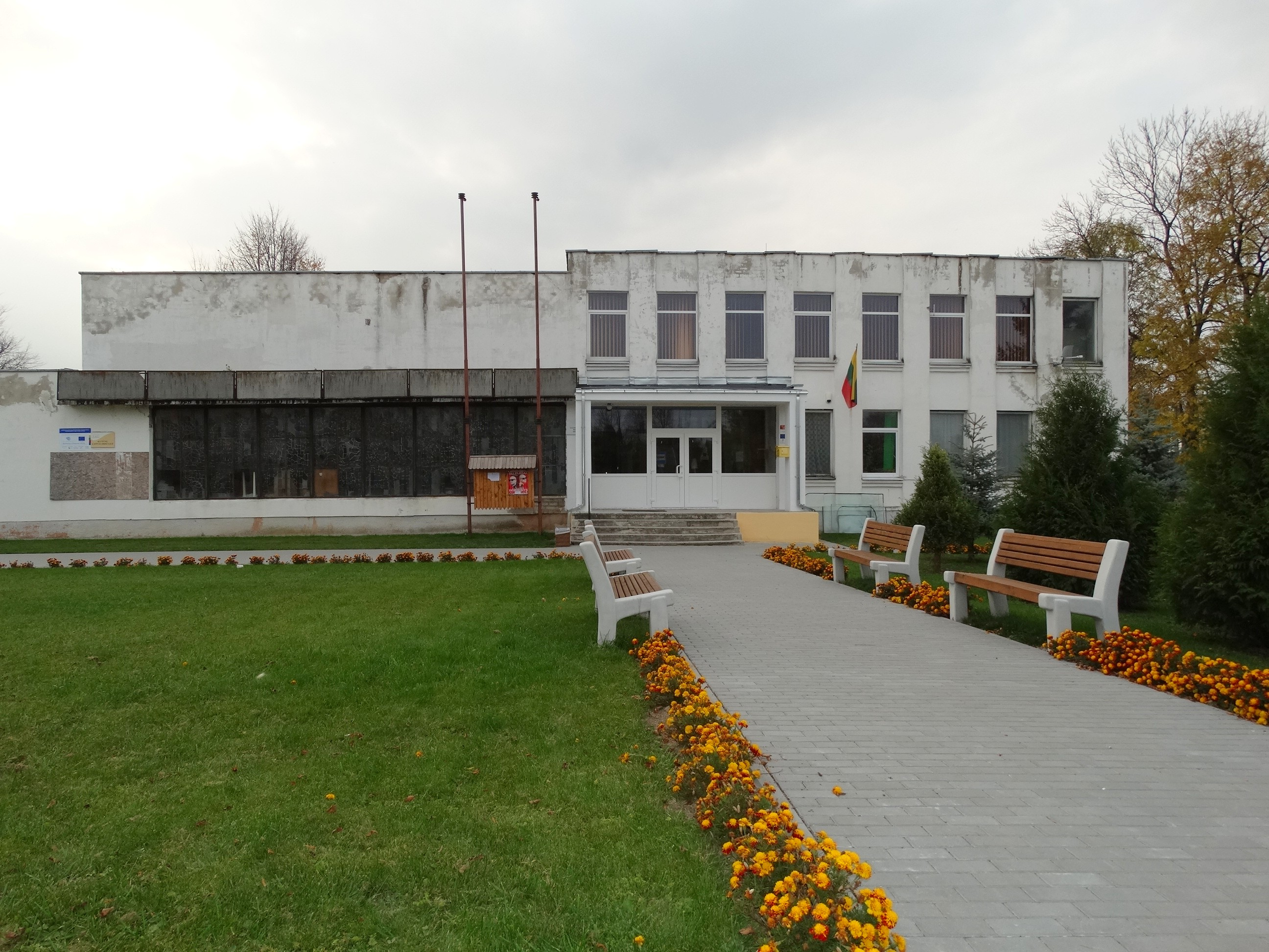 Kučiūnai, Lazdijai district, Lithuania